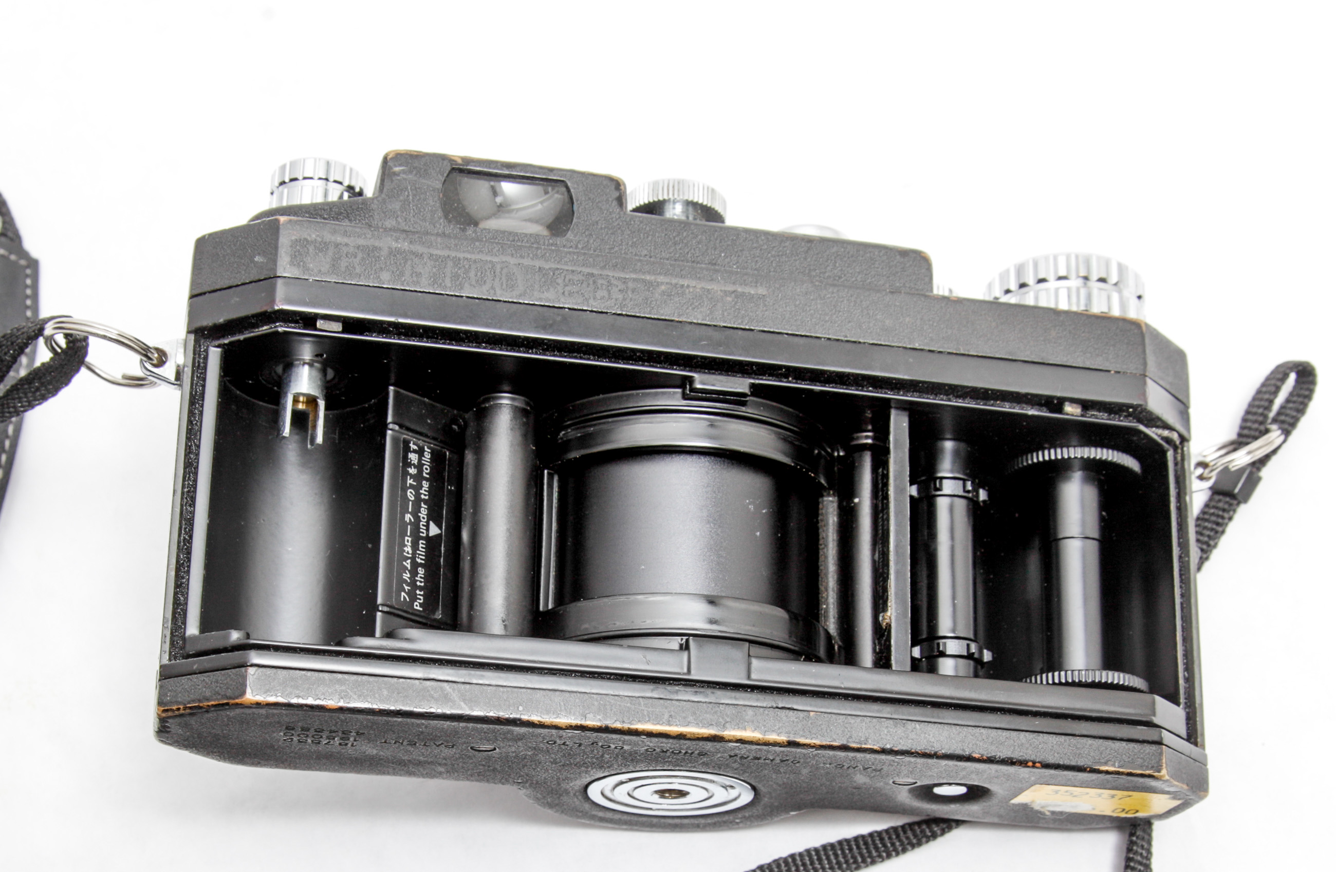 Widelux F7 with the back removed.